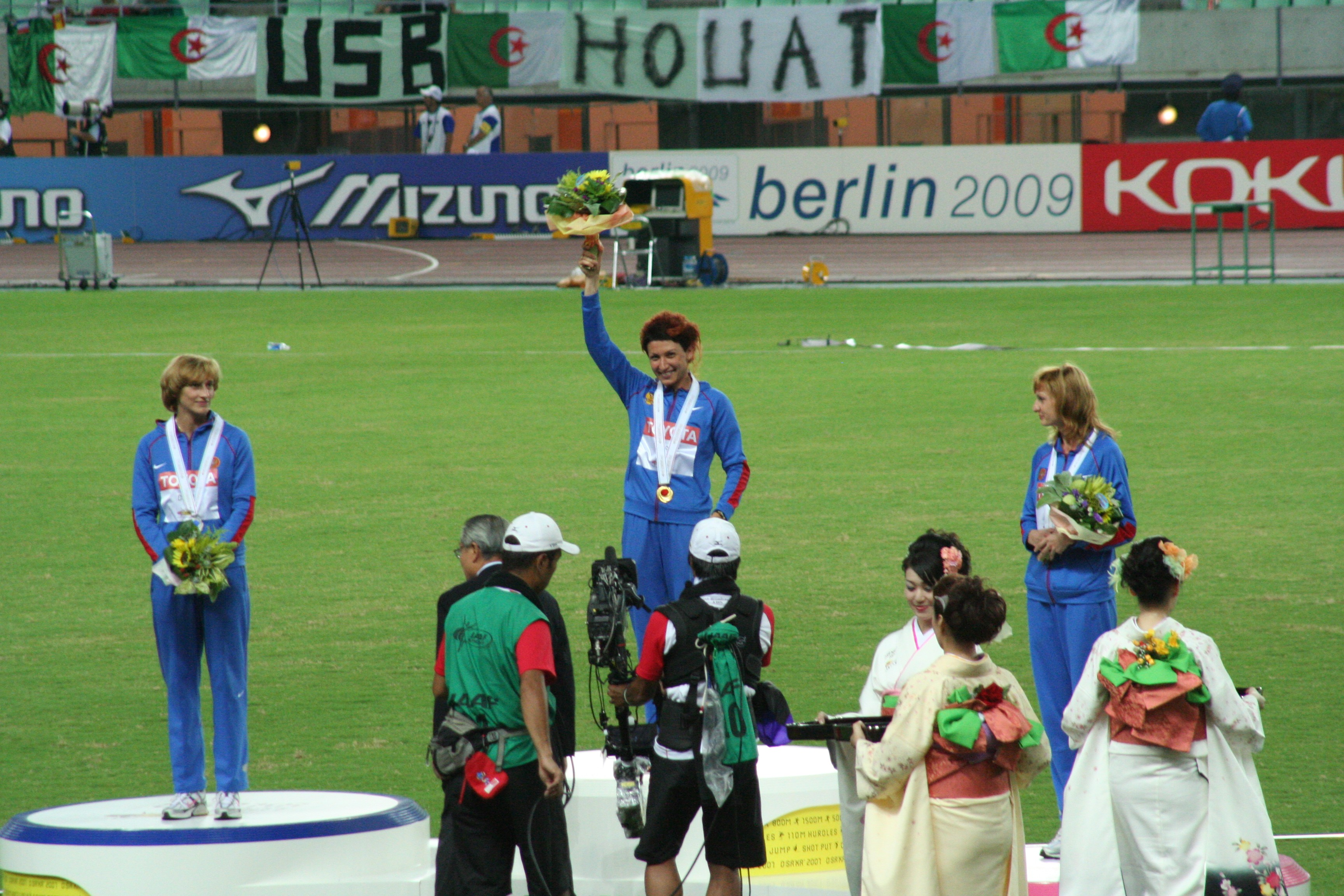 World Athletics Championships 2007 in Osaka - victory ceremony for the women's long jump: Lyudmila Kolchanova, Tatyana Lebedeva, Tatyana Kotova